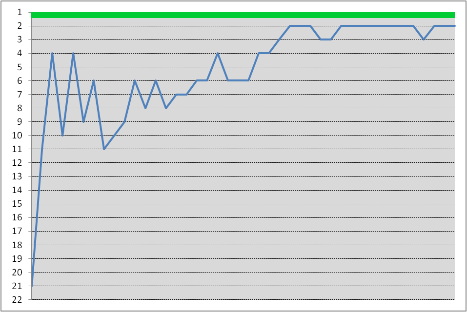 Graph showing the league position of Nelson FC throughout the 1924-25 Third Division (North) season. Created using Microsoft Excel and Adobe Fireworks